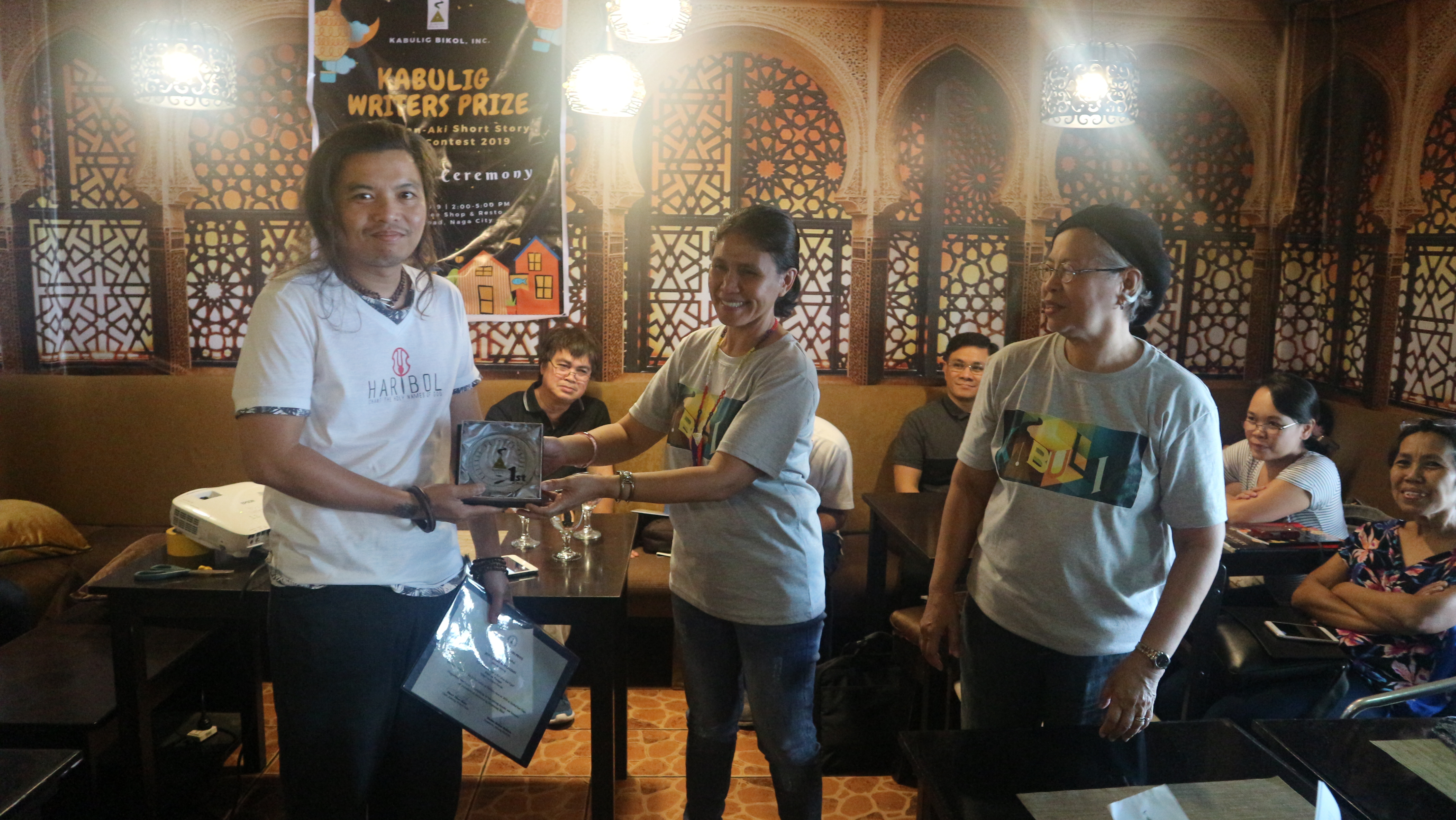 Jaime Jesus Borlagdan at Kabulig Writers Prize 2019